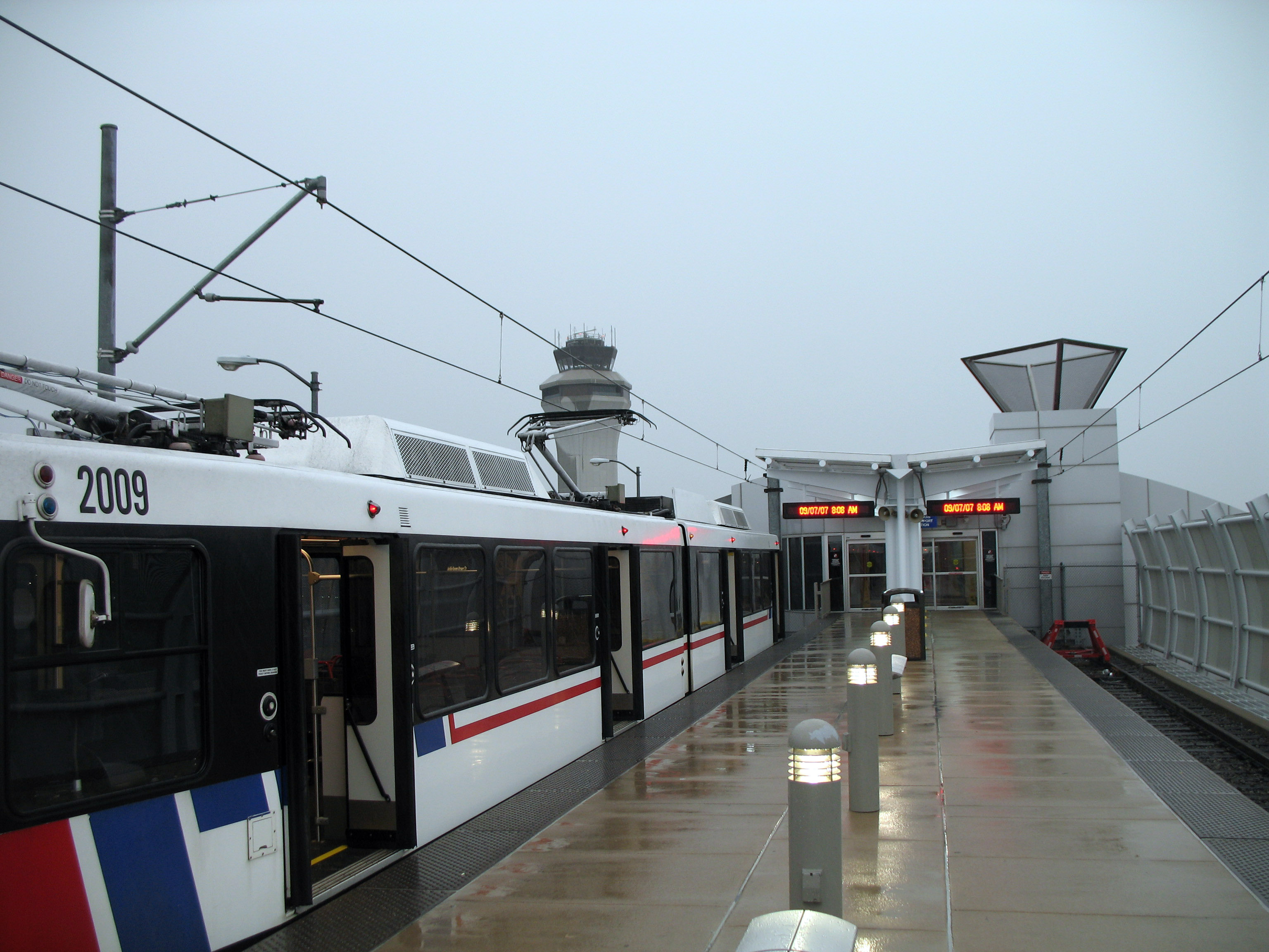 Metrolink train at Lambert International Airport. Photo by poster in September 2007.